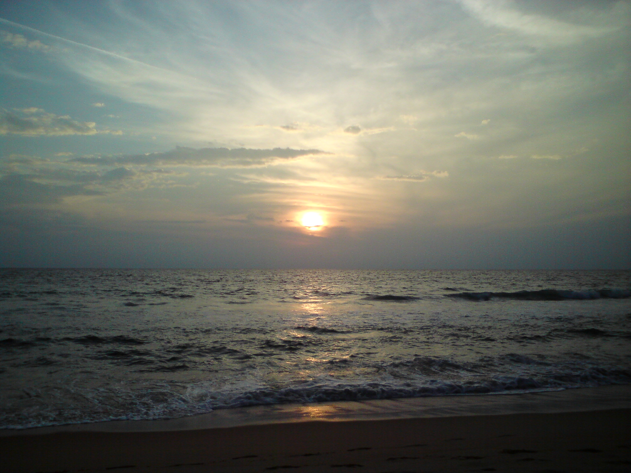 A picture of sunset taken from Paravur Thekkumbhagom beach